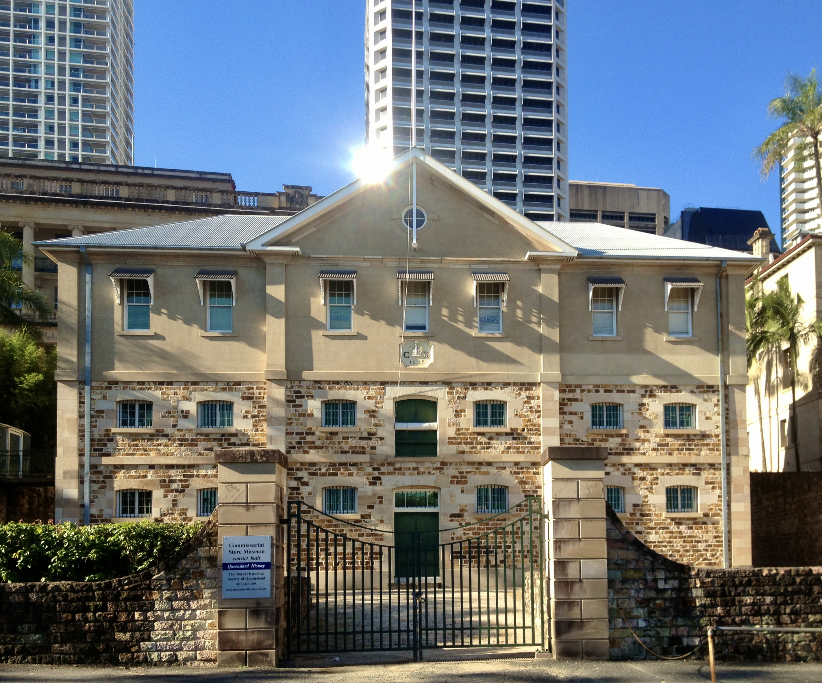 Commissariat Store, 115 William Street, Brisbane, 07.2013